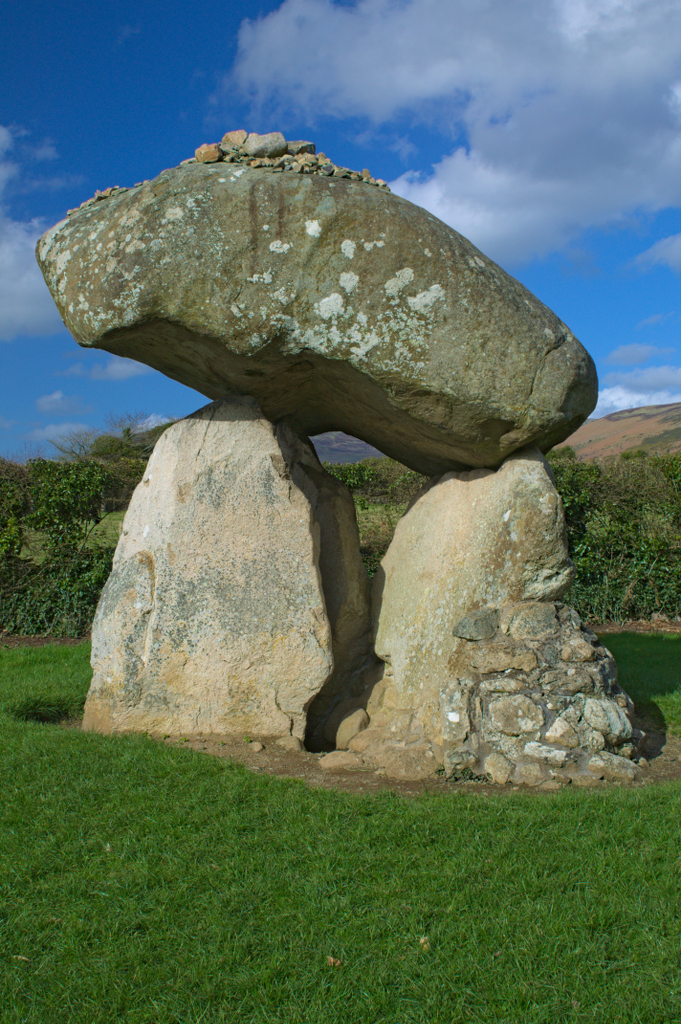 Proleek Portal Tomb, Dundalk, County Louth, Ireland